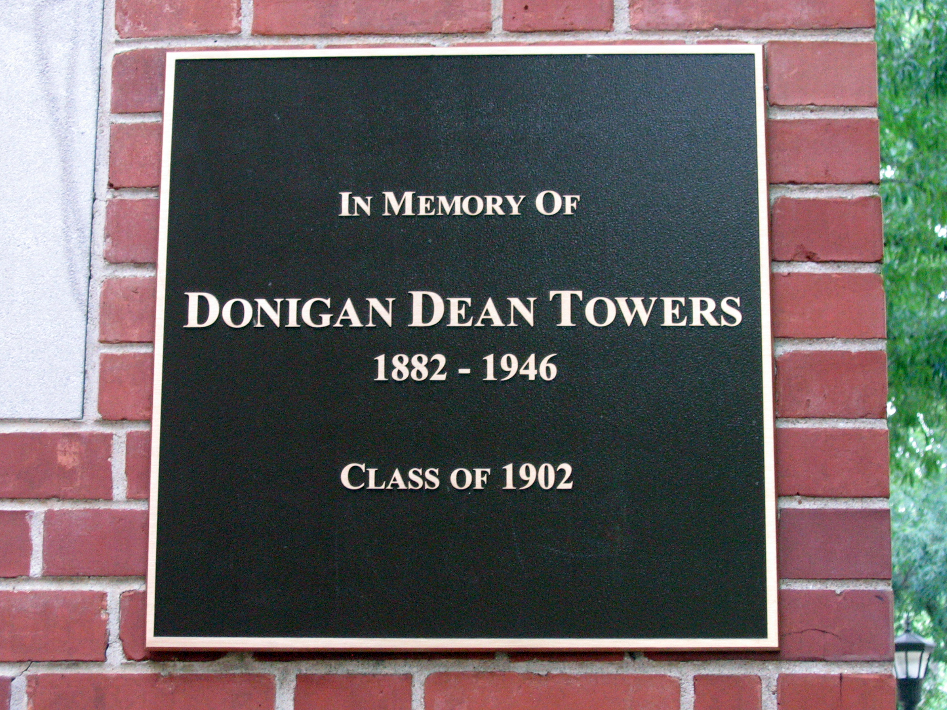 Description: A commemorative plaque on Georgia Tech's Towers Hall